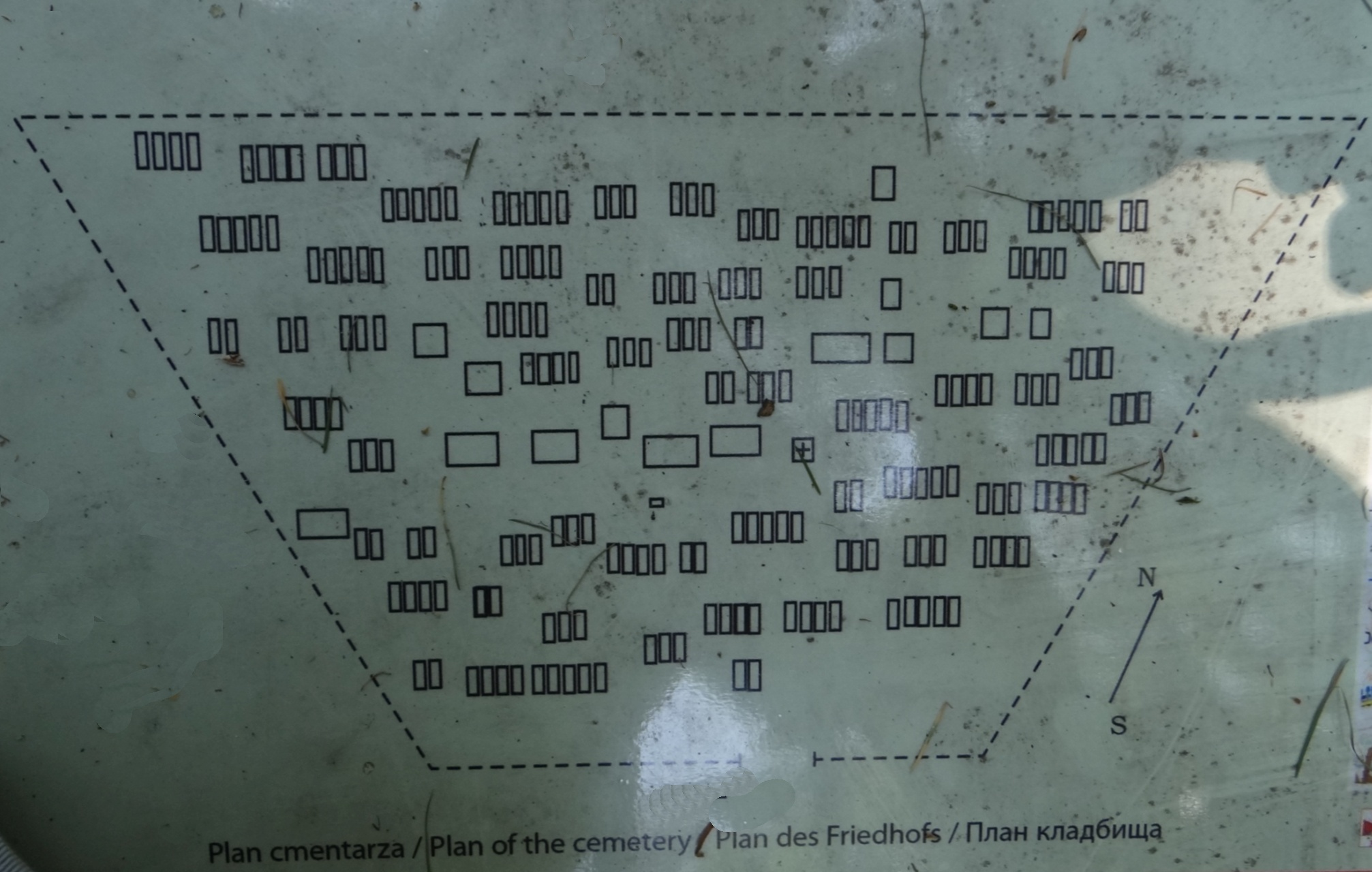 World War I Cemetery nr 164 in Tuchów